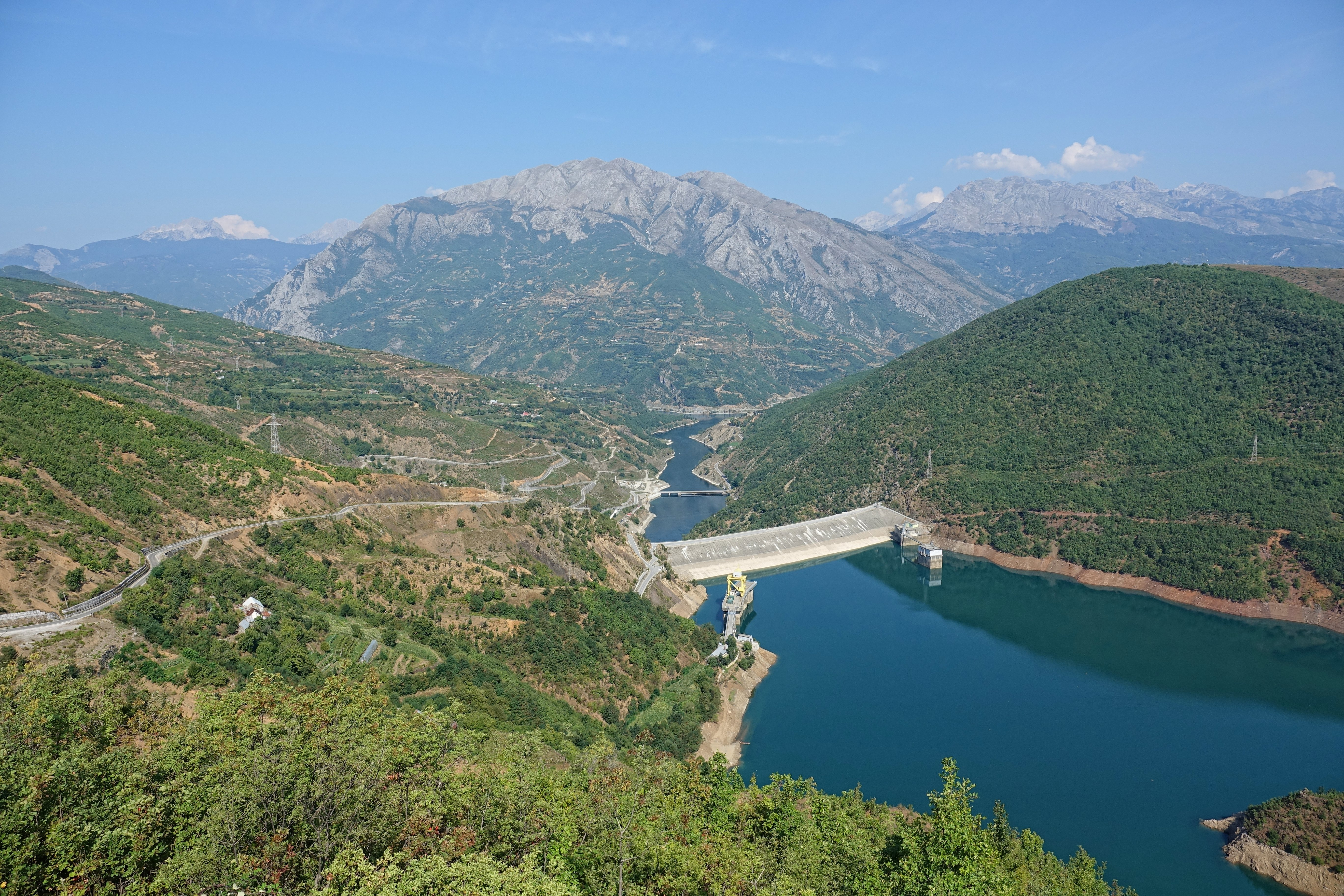 The Fierza dam above Lake Koman, looking north-west towards Fierza village and the mountains Maja and Mërturit. The photograph was taken from road SH-22.